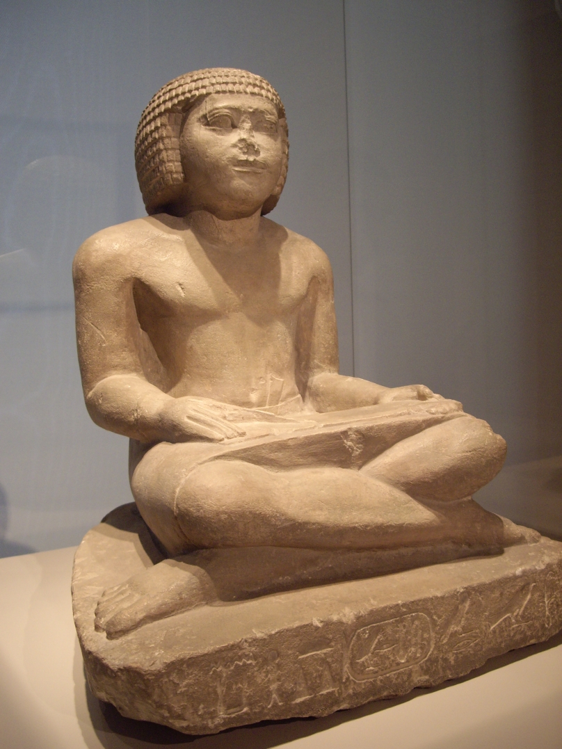 Statue in limestone of Henka, priest and scribe of the pyramid of Snefru. Bought in Meidum – Old Kingdom.